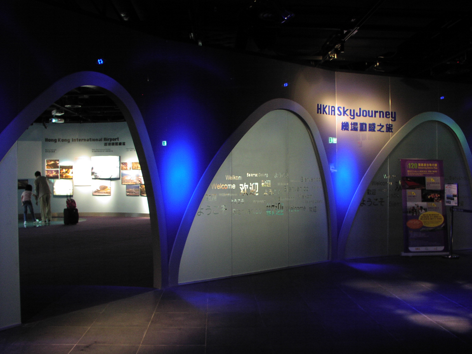 Aviation Discovery Centre